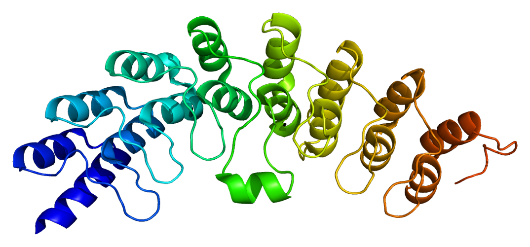 Structure of the RNASEL protein. Based on PyMOL rendering of PDB 1wdy.